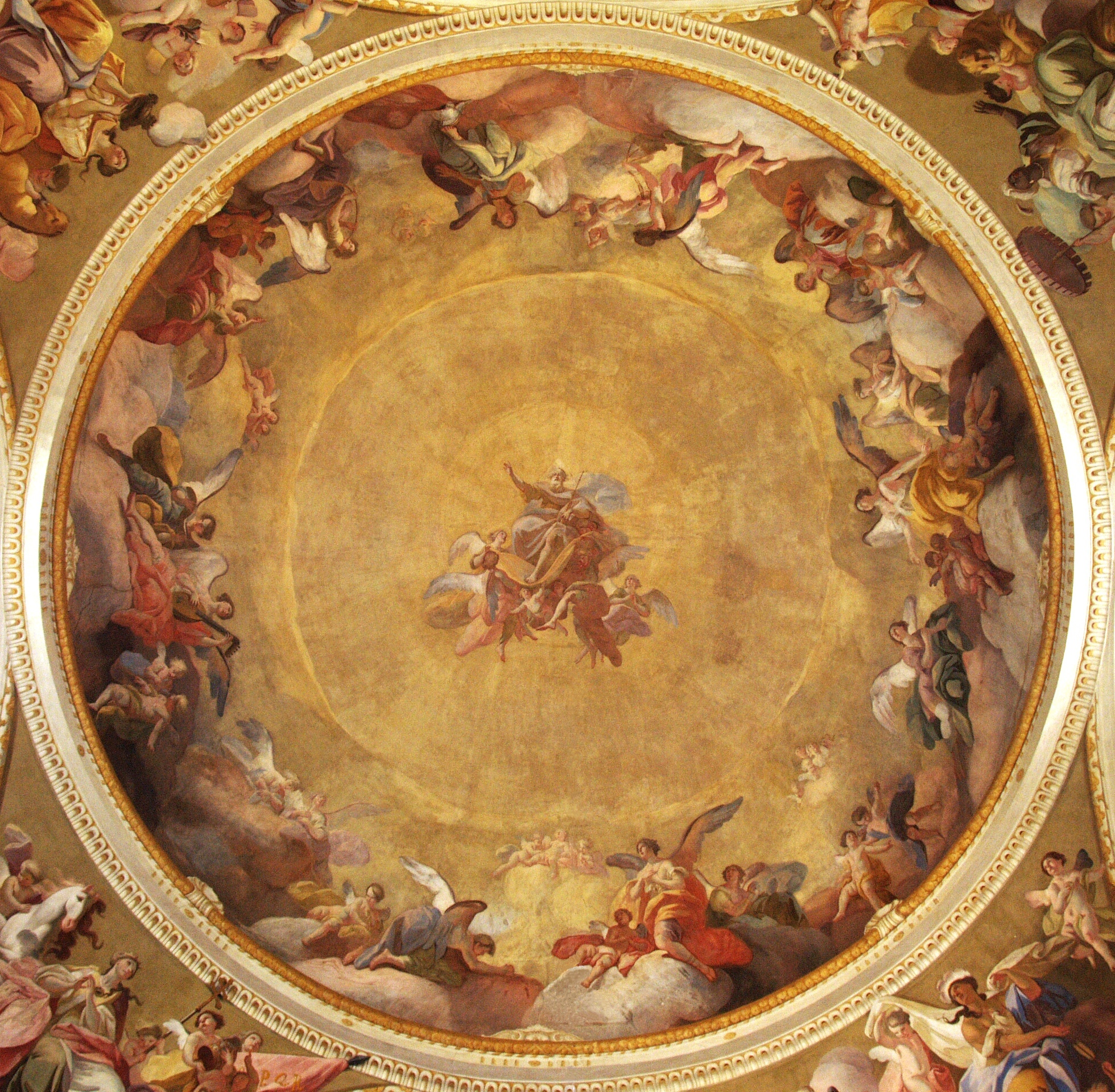 The Adoration of God the Father. Fresco No. 11, Most Holy Trinity Church, Fulnek, Czechia, Europe.